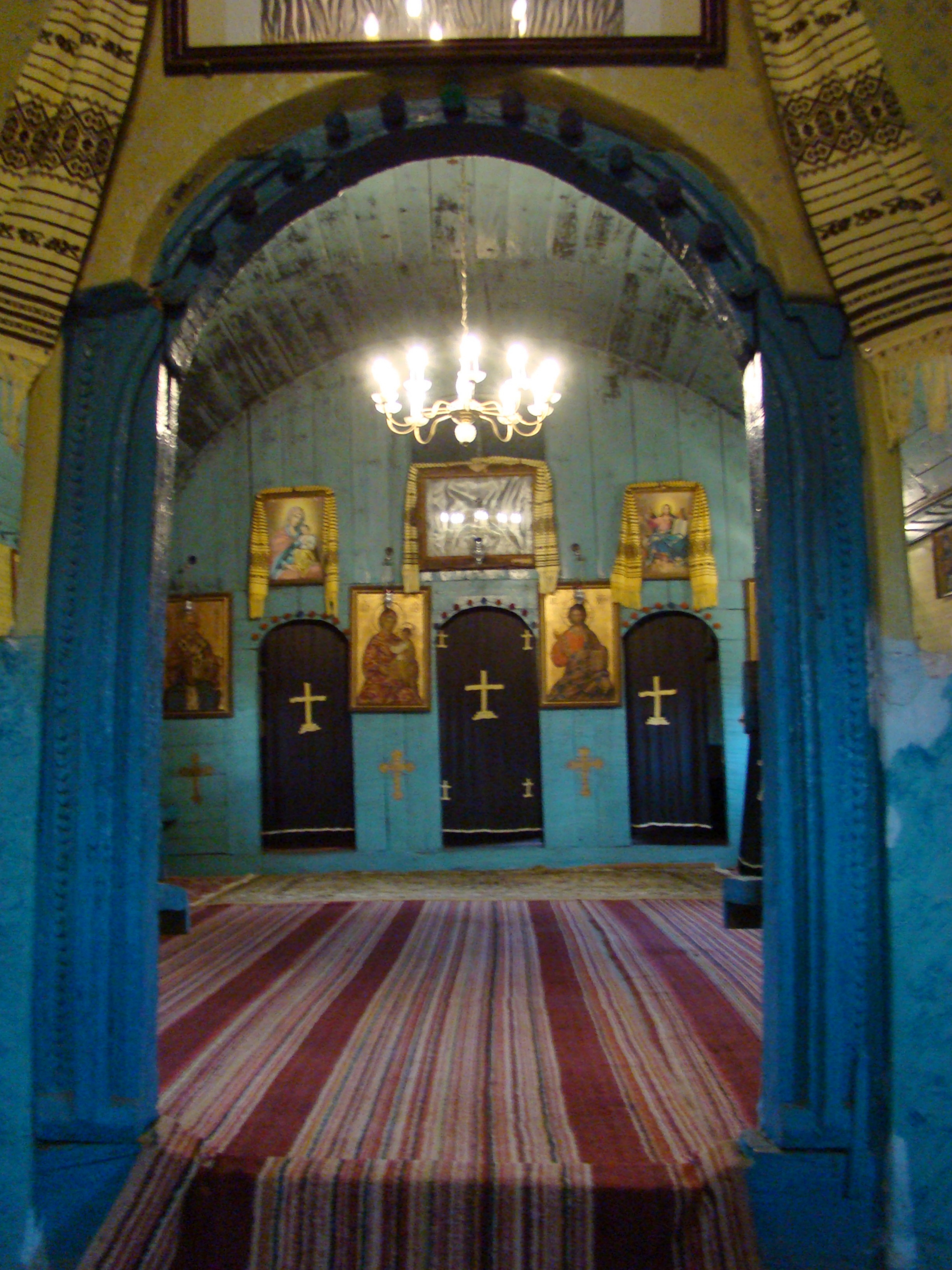 The wooden church in Sâncrai, Alba county, Romania